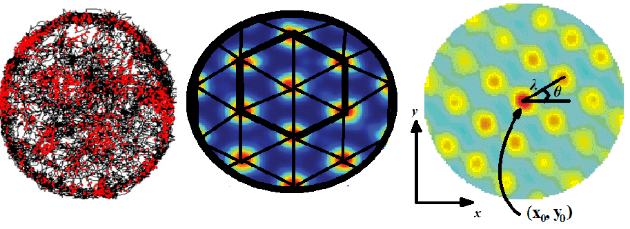 grid cells properties